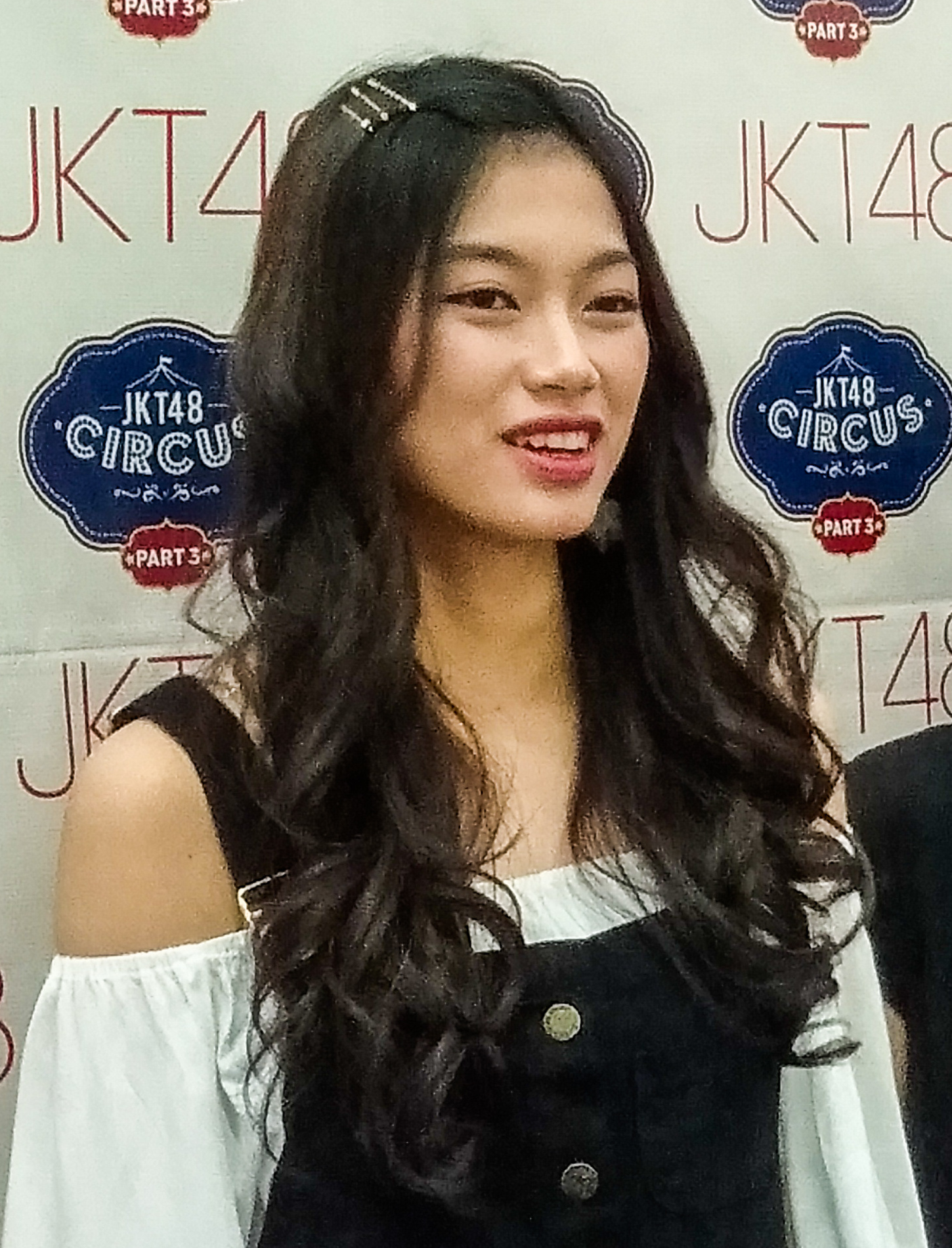 Desy and Beby of JKT48 on 13 July 2019